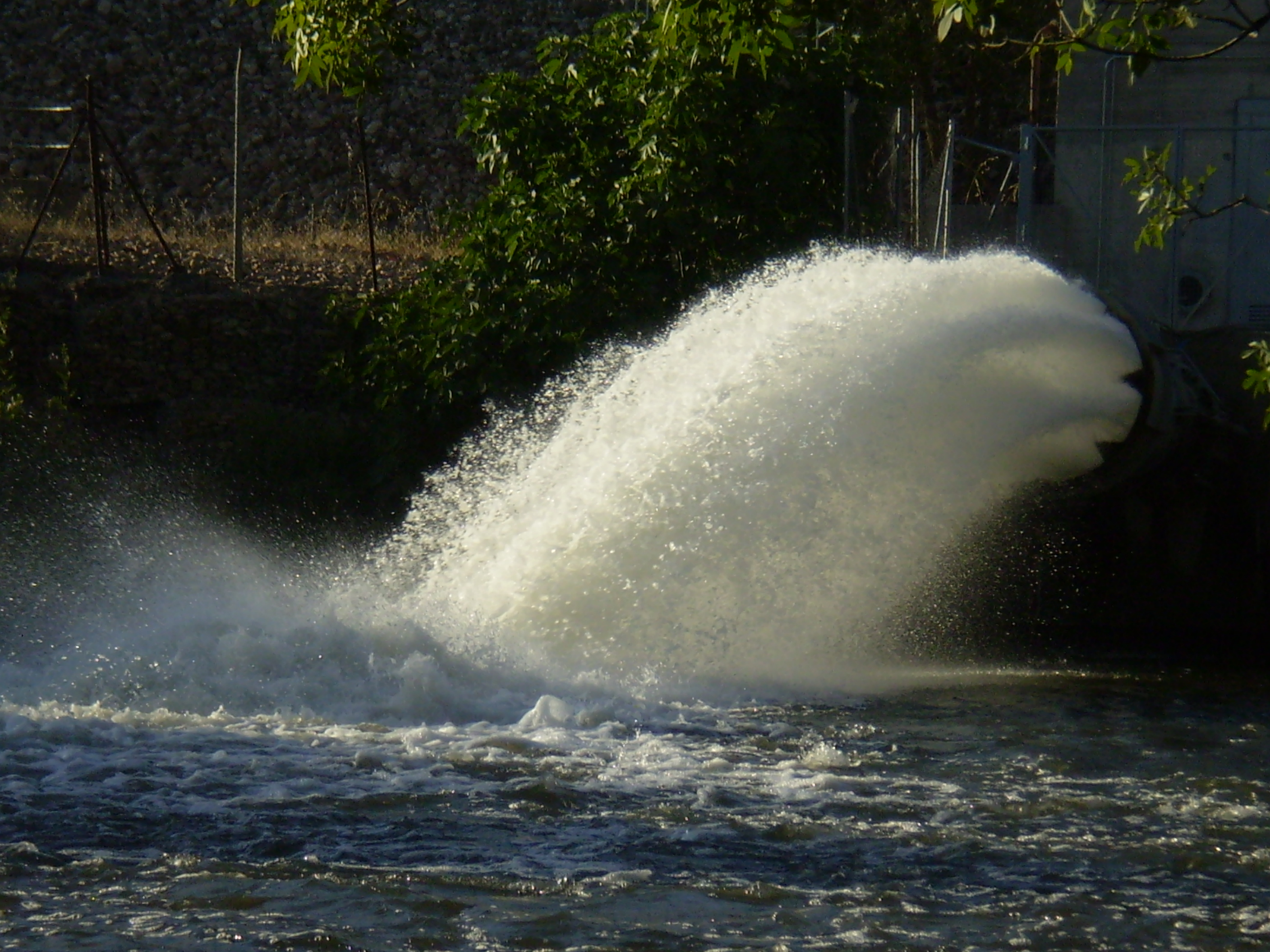 El Pardo Reservoir. Community of Madrid, Spain